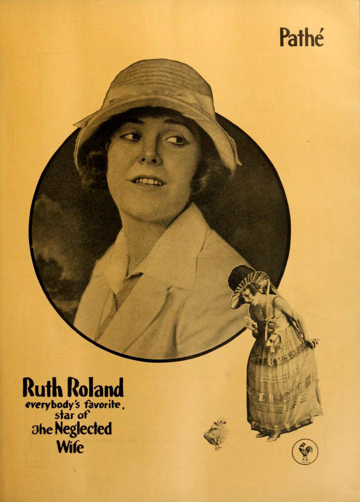 Advertisement in Moving Picture World, Aug 1917 for the American film The Neglected Wife (1917).